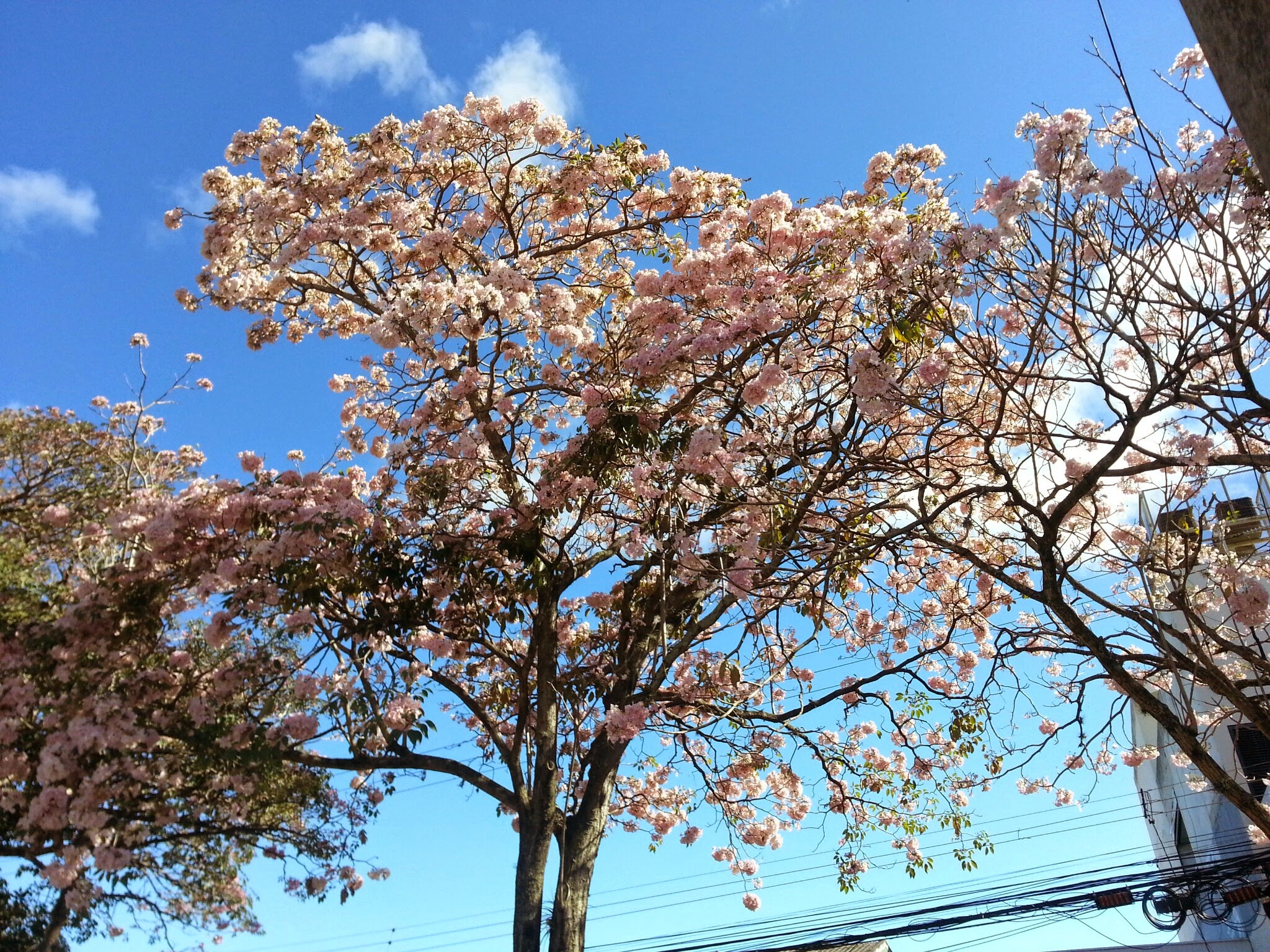 Flowered tree Roble Sabana (Tabebuia rosea) in Boulevard Rohrmoser, Pavas, San José, Costa Rica